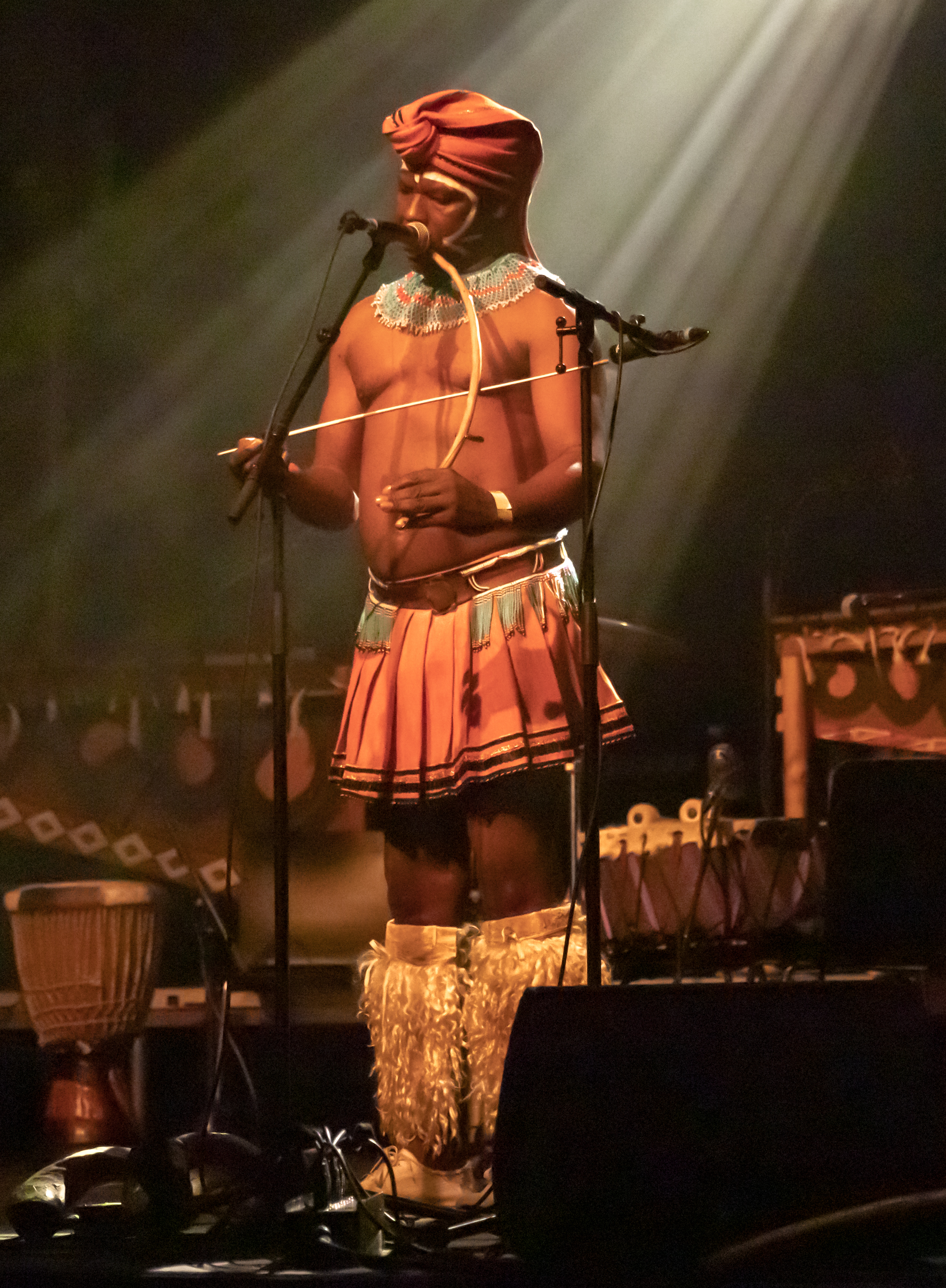 South Africa Helsinki 6.11.2018 This is the group of former Amampondo leader, Dizu Plaatjies. The group perform traditional, neo-traditional and original african songs. Virtually all instruments are hand made of wood, animal skins, seeds, hand beaten metal, etc. The basic ensemble of 5 musicians sing, play and dance. Additional drummers and dancers augment the line-up. The instruments include, marimba, mbira, akadinda, umhube, uhardi, drums and percussion. (Virtual Womex)